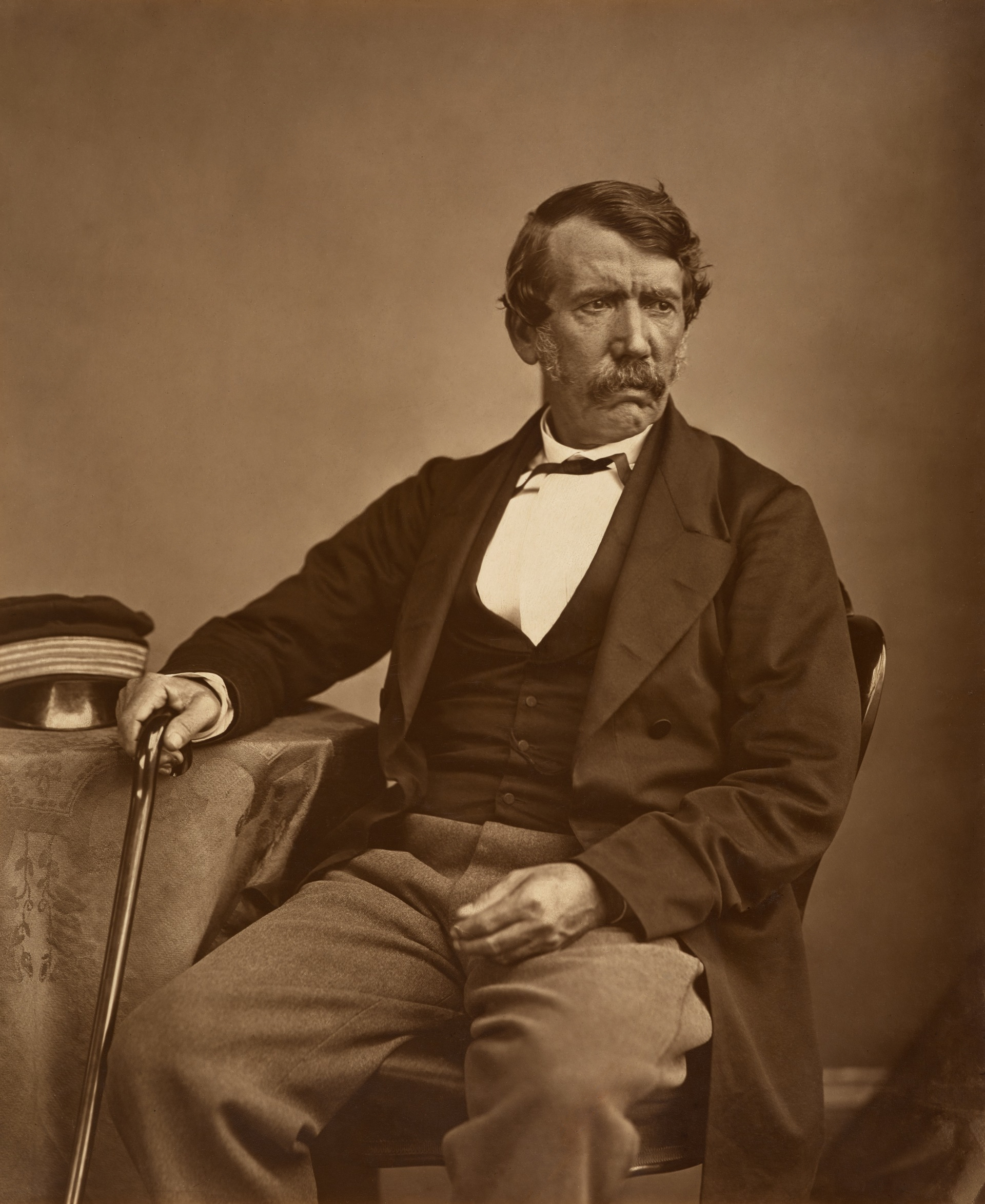 Accession no. PGP 74.2 Medium Carbon print Size 36.90 x 30.20 cm Credit Gift by T & R Annan and Sons, 1930 For more information please select here.